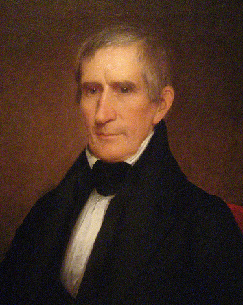 William Henry Harrison, in March 1841 the ninth President of the United States, painted by Albert Gallatin Hoit